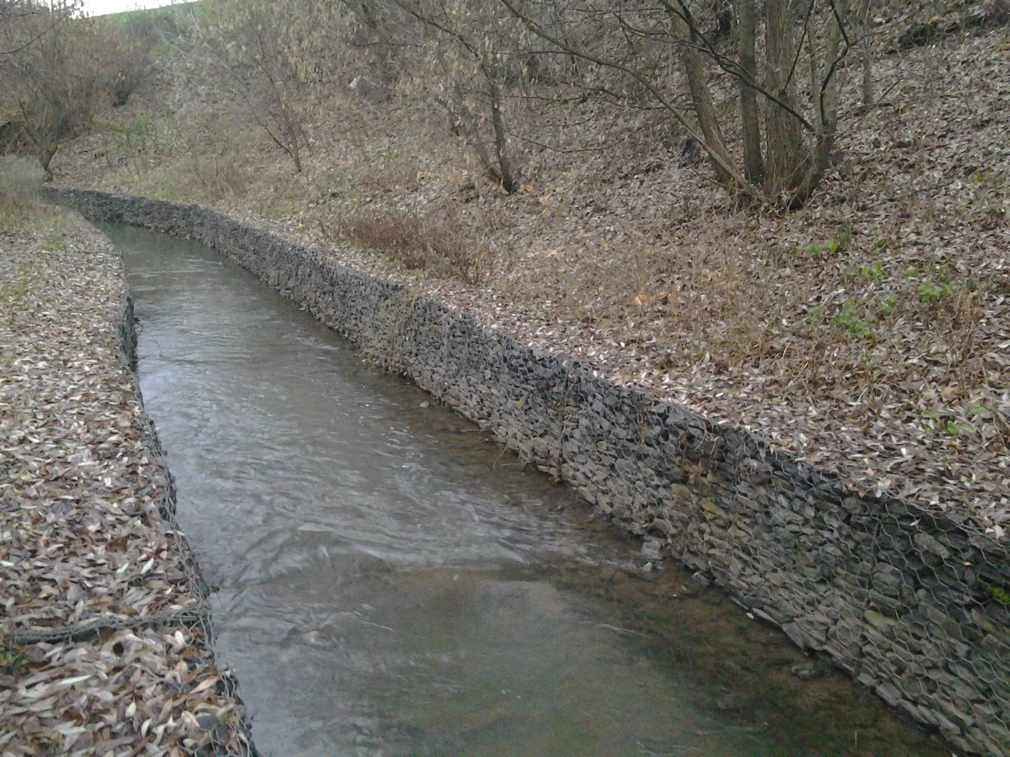 Krovyanka river before the confluence of Chura river. Moscow city above Danilov cemetery